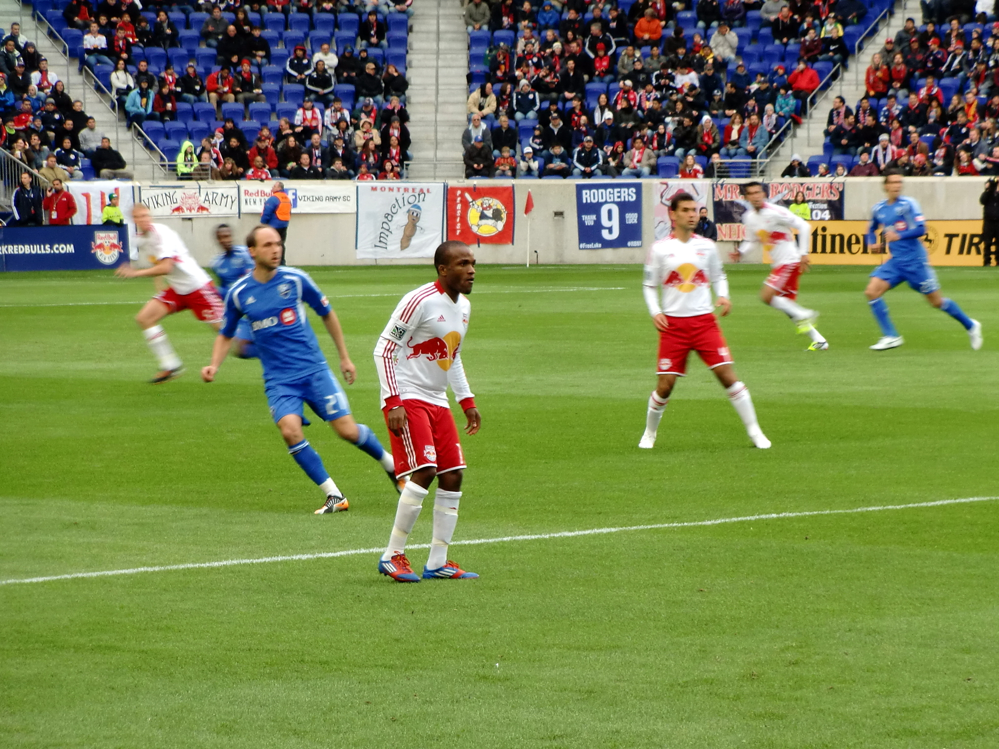 Dane Richards of the New York Red Bulls.